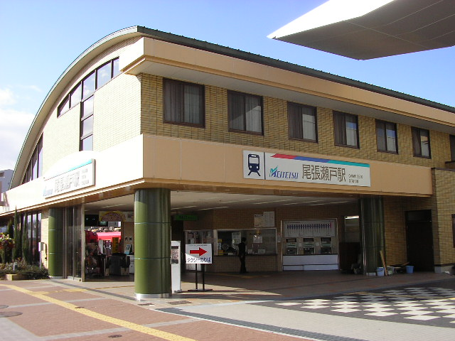 Nagaoya Railroad Seto Line Owari-Seto Station 名古屋鉄道 瀬戸線 尾張瀬戸駅